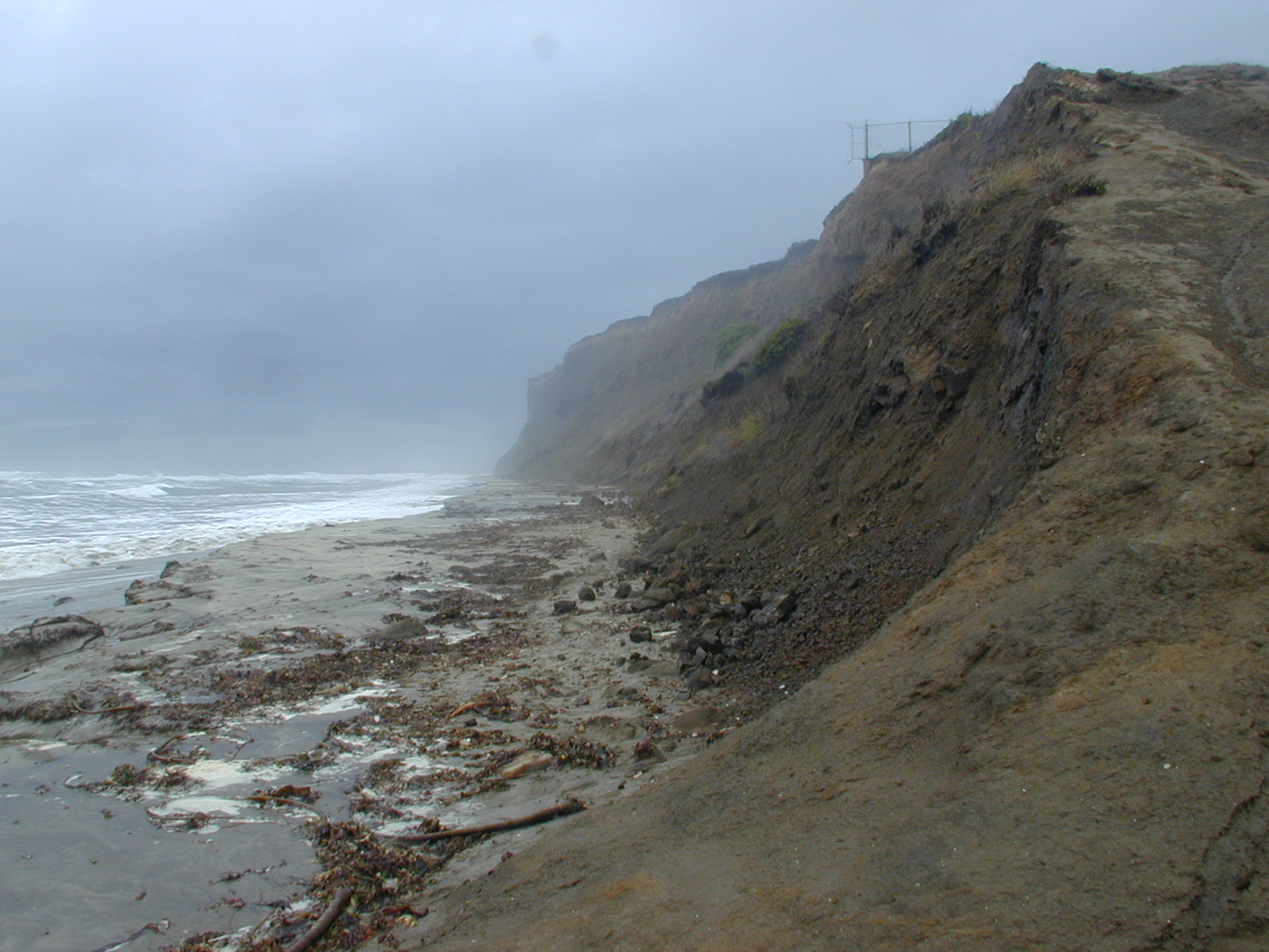 Pillar Point at Half Moon Bay is the home of the Mavericks Surf Contest.